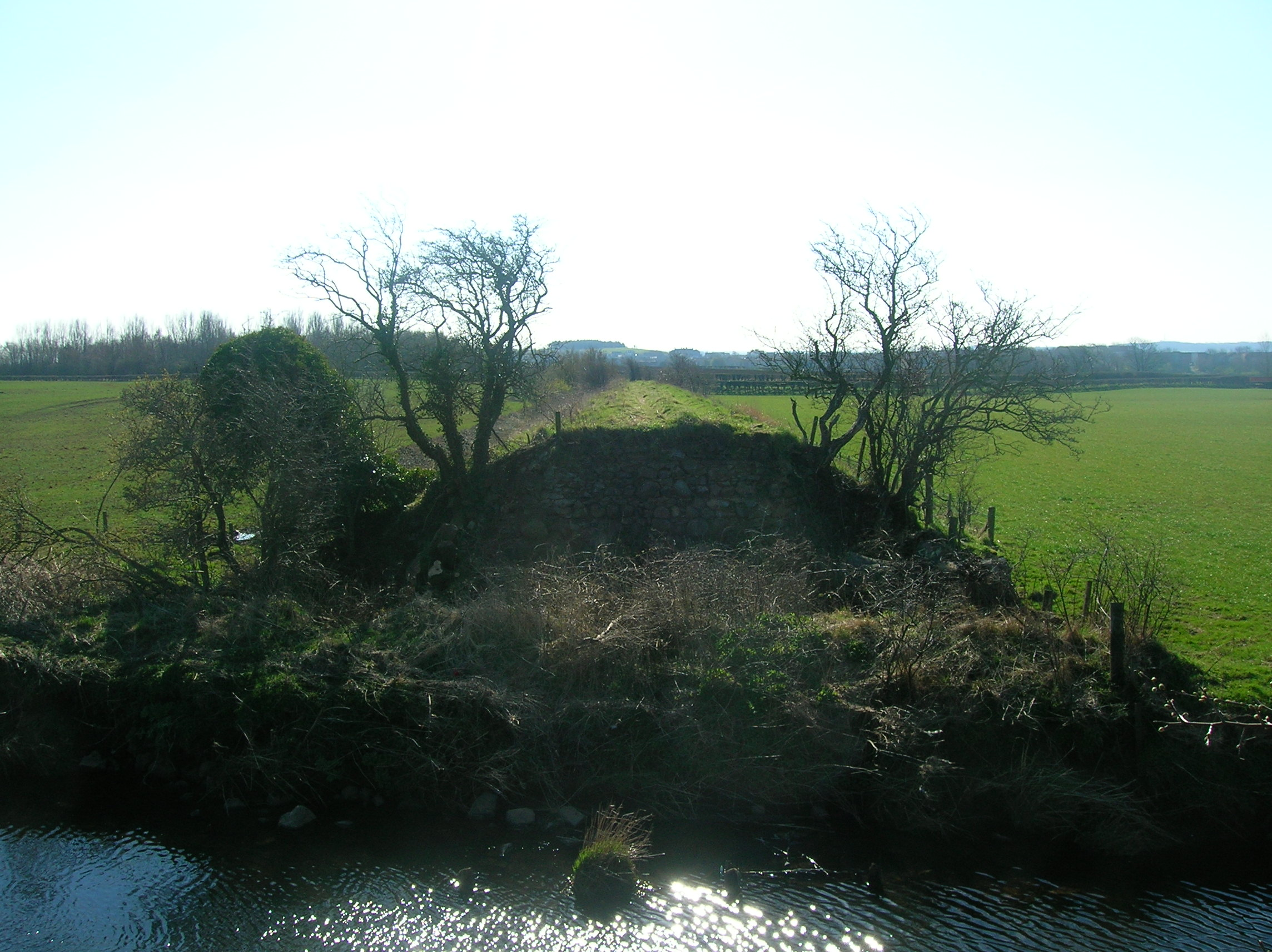 The railway over the Annick Water at Bourtreehill in North Ayrshire, Scotland. 2007. The mineral line ran to the old Perceton Colliery.